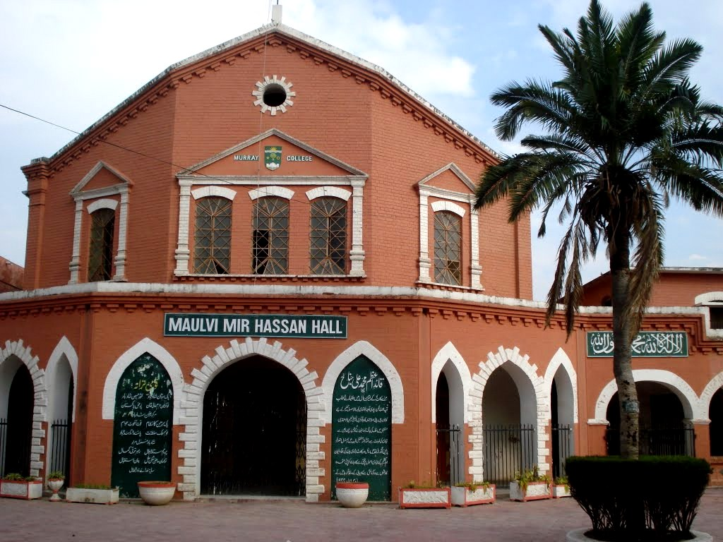 Murray College (main building) (1889) This is a photo of a monument in Pakistan identified as the PB-U-64